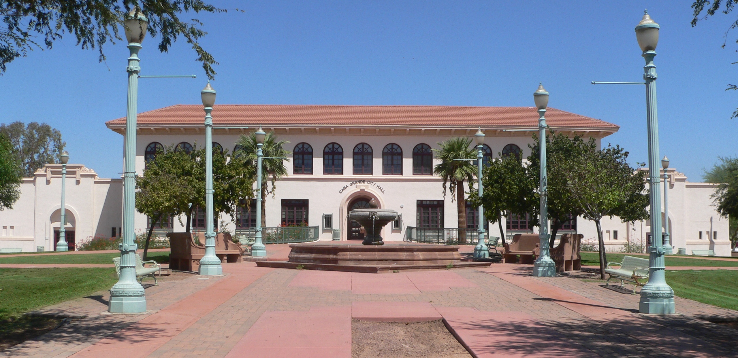 Casa Grande, Arizona city hall; formerly Casa Grande Union High School, or "Old Main". View is from the south, from Florence Boulevard.